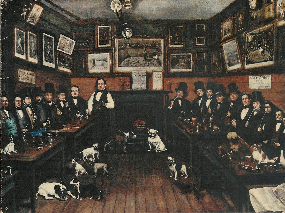 Image of a painting of the Toy Dog Club circa 1855.